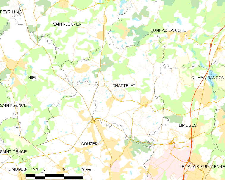 Map of French municipality Chaptelat